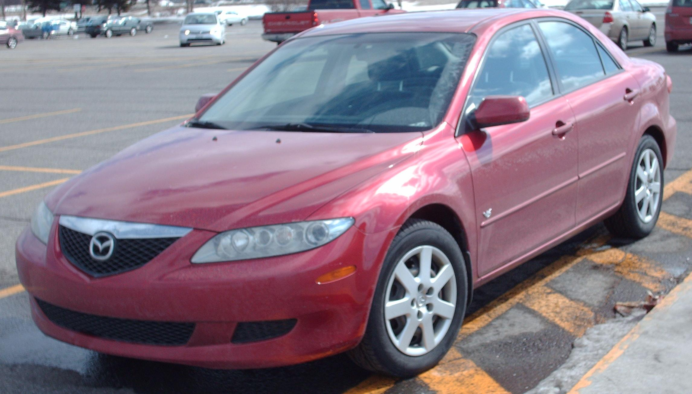 2003-present Mazda6 photographed in Montreal, Quebec, Canada.